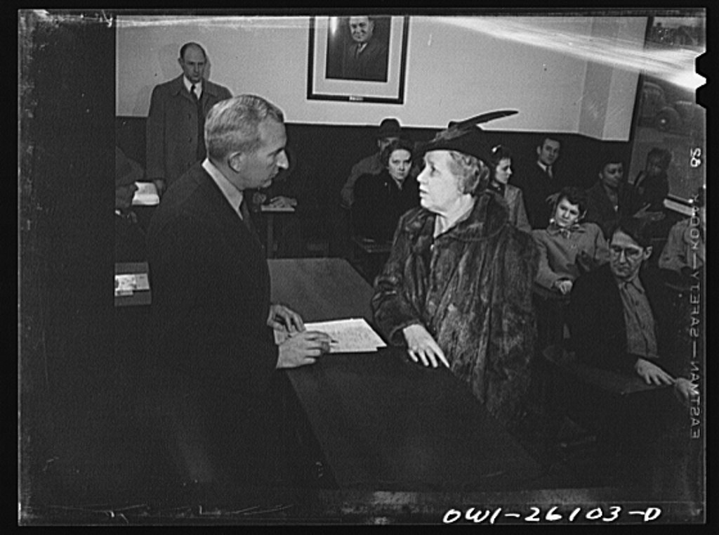 Title: Buffalo, New York. People waiting to be interviewed at the employment agency of the Bell Aircraft plant. This woman is sixty-five, and has never been anything but a housewife, she is told that she cannot be of use right now. It is feared that she wouldn't have the strength to stay on a factory job Creator(s): Collins, Marjory, 1912-1985, photographer Date Created/Published: 1943 May. Medium: 1 negative : safety ; 3 1/4 x 4 1/4 inches or smaller. Reproduction Number: LC-USW3-026103-D (b&w film neg.) Rights Advisory: No known restrictions. For information, see U.S. Farm Security Administration/Office of War Information Black & White Photographs( Call Number: LC-USW3- 026103-D [P&P] Repository: Library of Congress Prints and Photographs Division Washington, D.C. 20540 Notes: Title and other information from caption card. LOT 0795 (Location of corresponding print.) Transfer; United States. Office of War Information. Overseas Picture Division. Washington Division; 1944. More information about the FSA/OWI Collection is available at Film copy on SIS roll 9, frame 53. fsa.8d18038